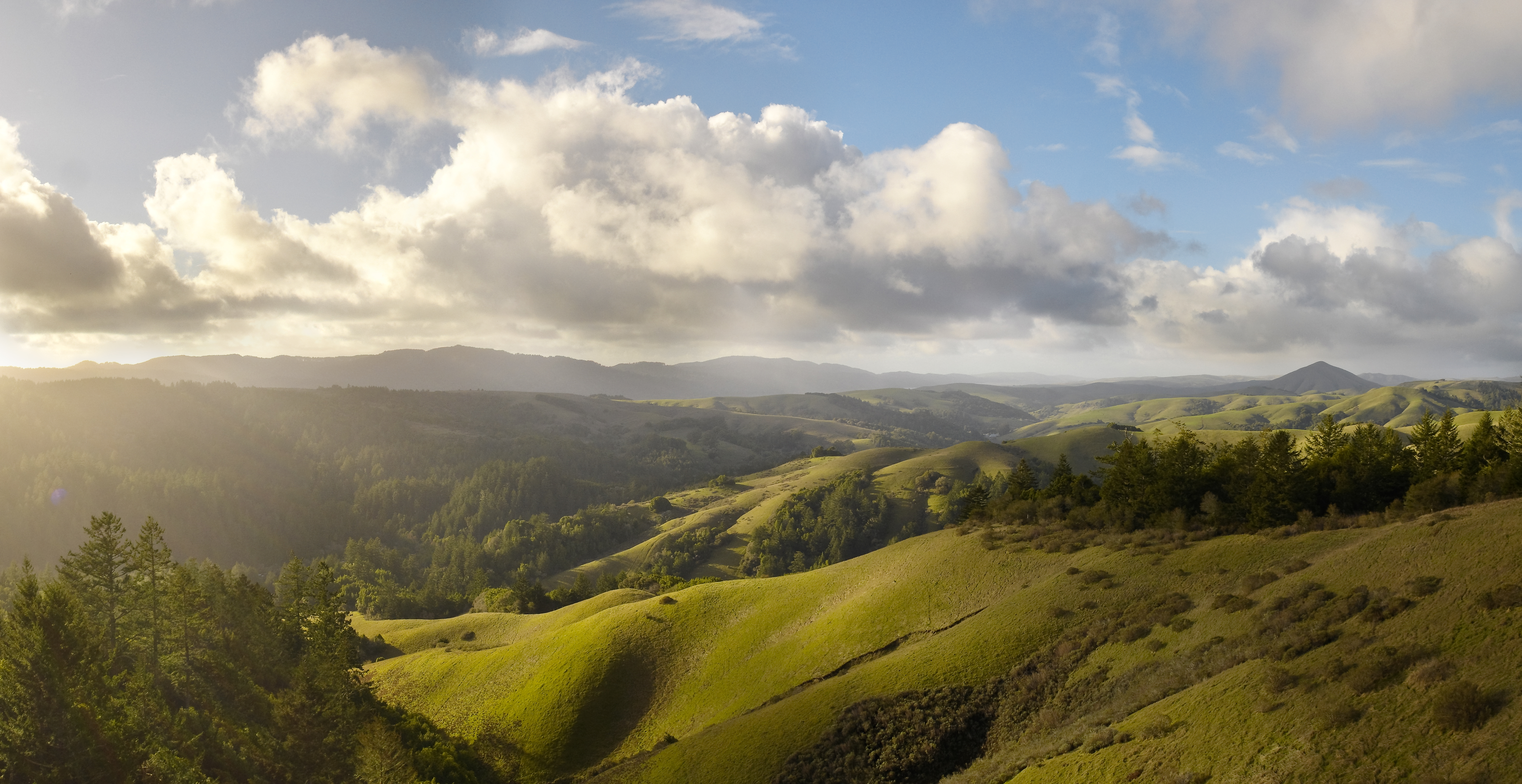 Looking north from Barnabe Fire Road in Samuel P. Taylor State Park, California, USA